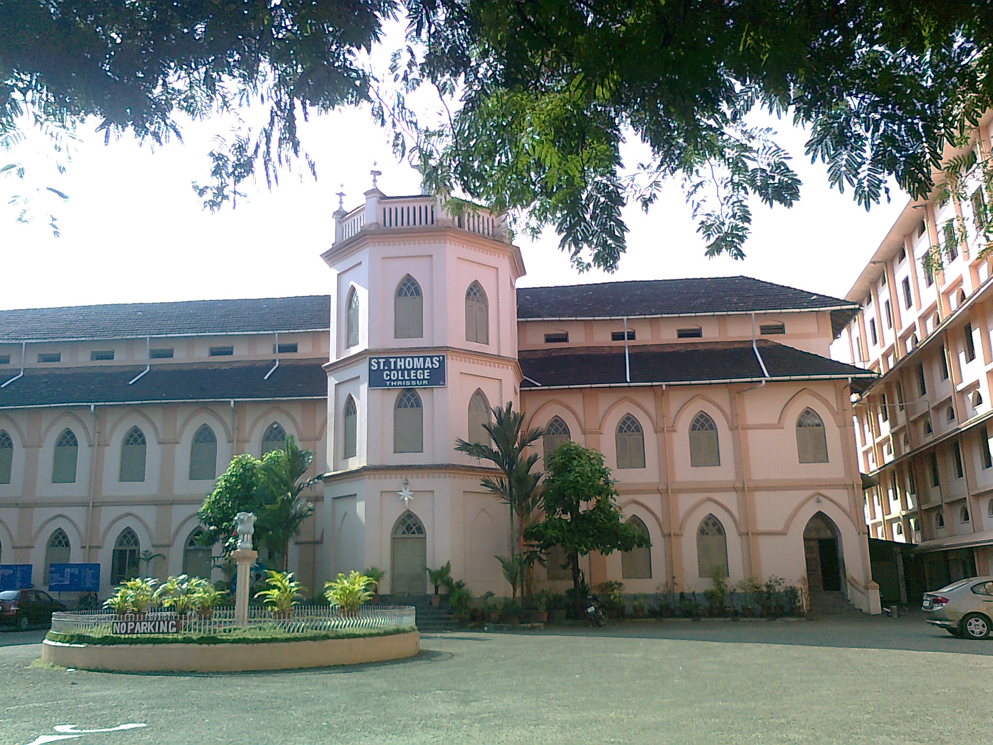 St. Thomas College Thrissur is one of the famous colleges in Kerala